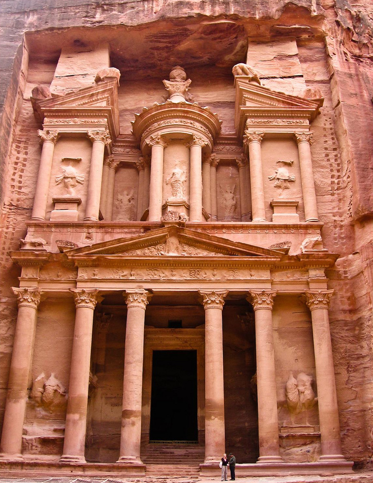 Treasury. Petra. Jordan